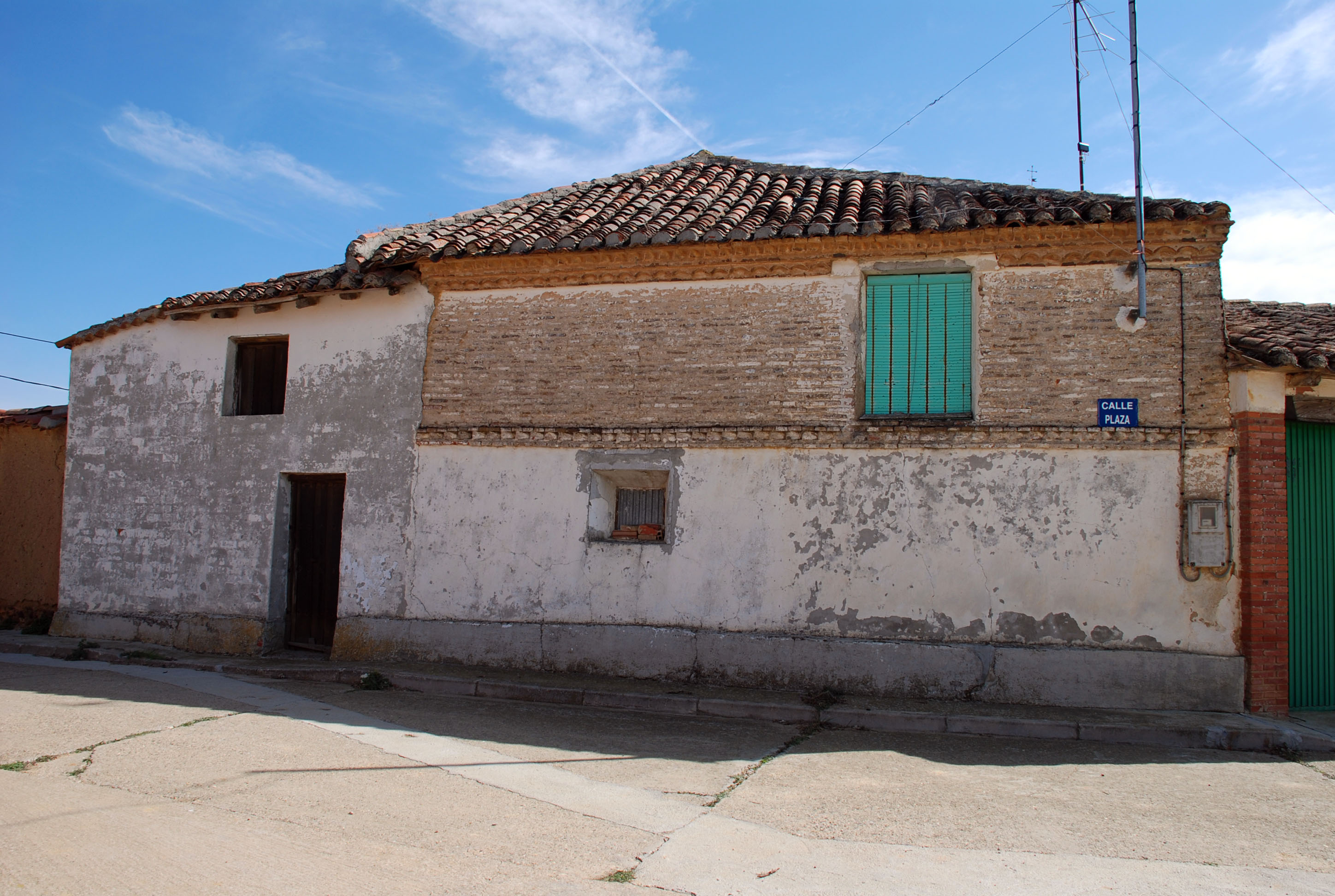 House at Villabasta de Valdavia (Palencia, Castile and León).